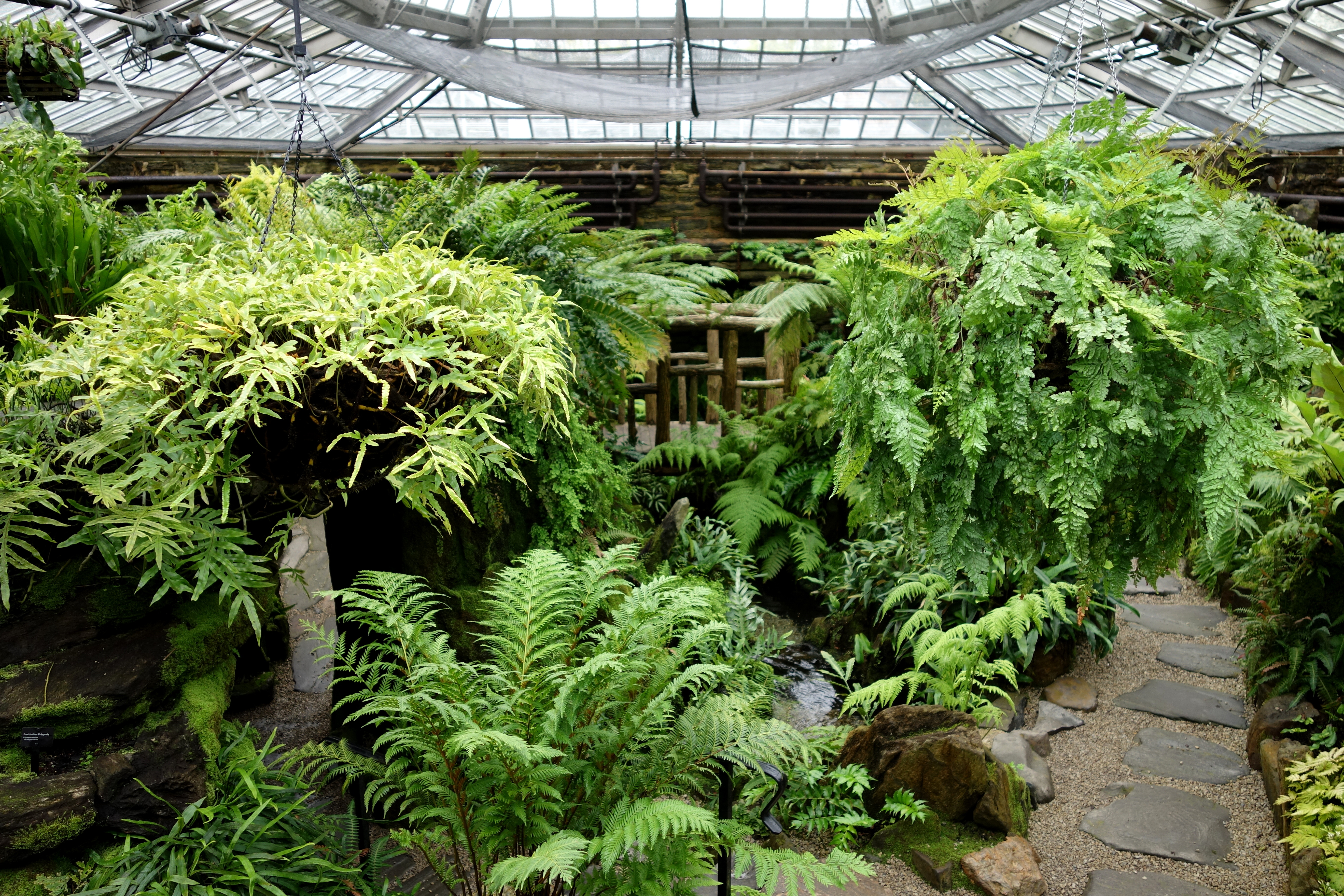 Botanical exhibit in the Fernery, Morris Arboretum.100 East Northwestern Avenue, Chestnut Hill, Philadelphia, Pennsylvania, USA.